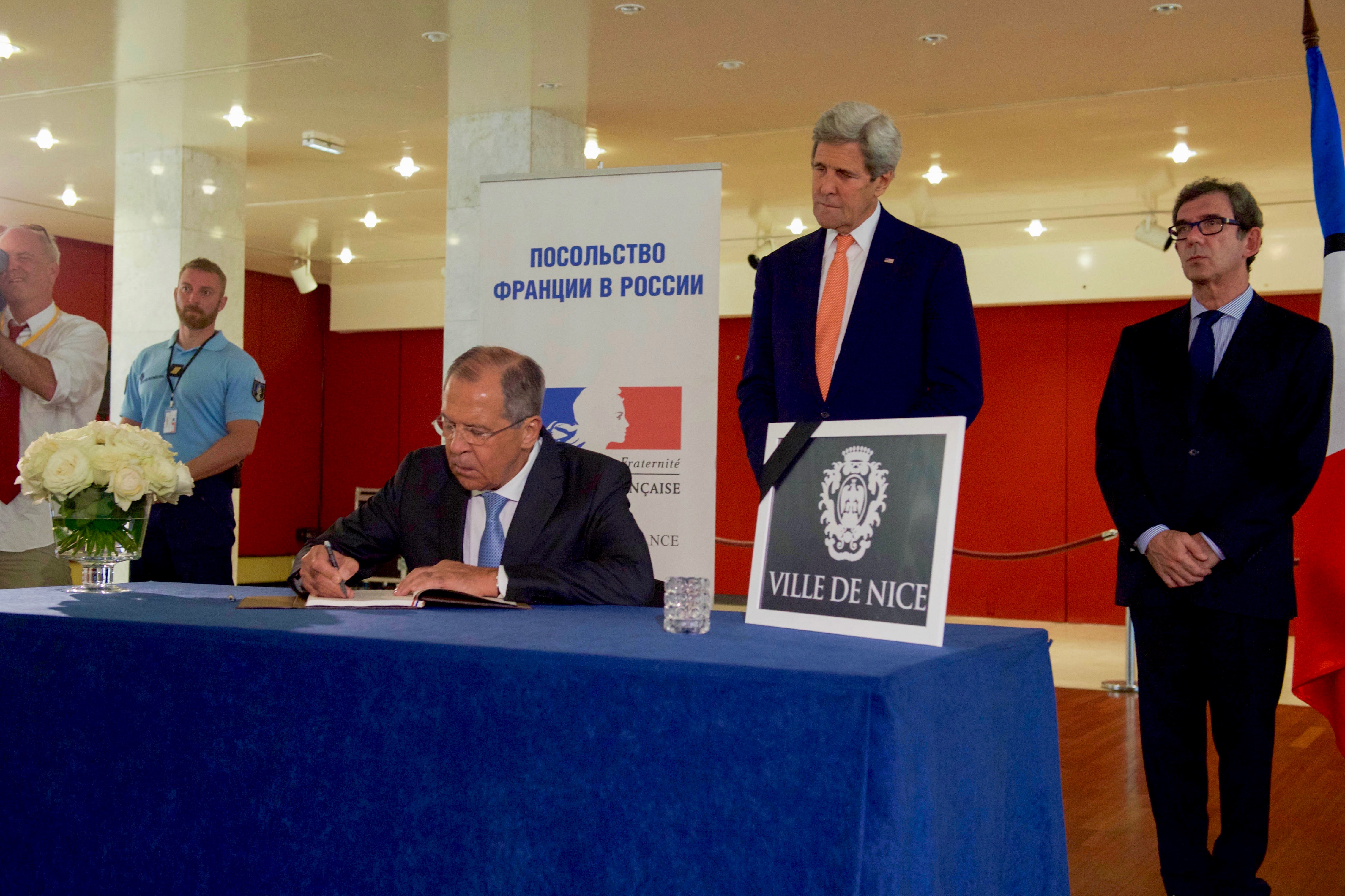 U.S. Secretary of State John Kerry and French Ambassador to Russia Jean-Maurie Ripert look on as Russian Foreign Minister Sergey Lavrov signs a condolence book on July 15, 2016, at the French Embassy in Moscow, Russia, after the two Ministers each laid a bouquet of roses outside in memory of the victims of the prior day's terrorist truck attack in Nice, France.[State Department Photo/ Public Domain]